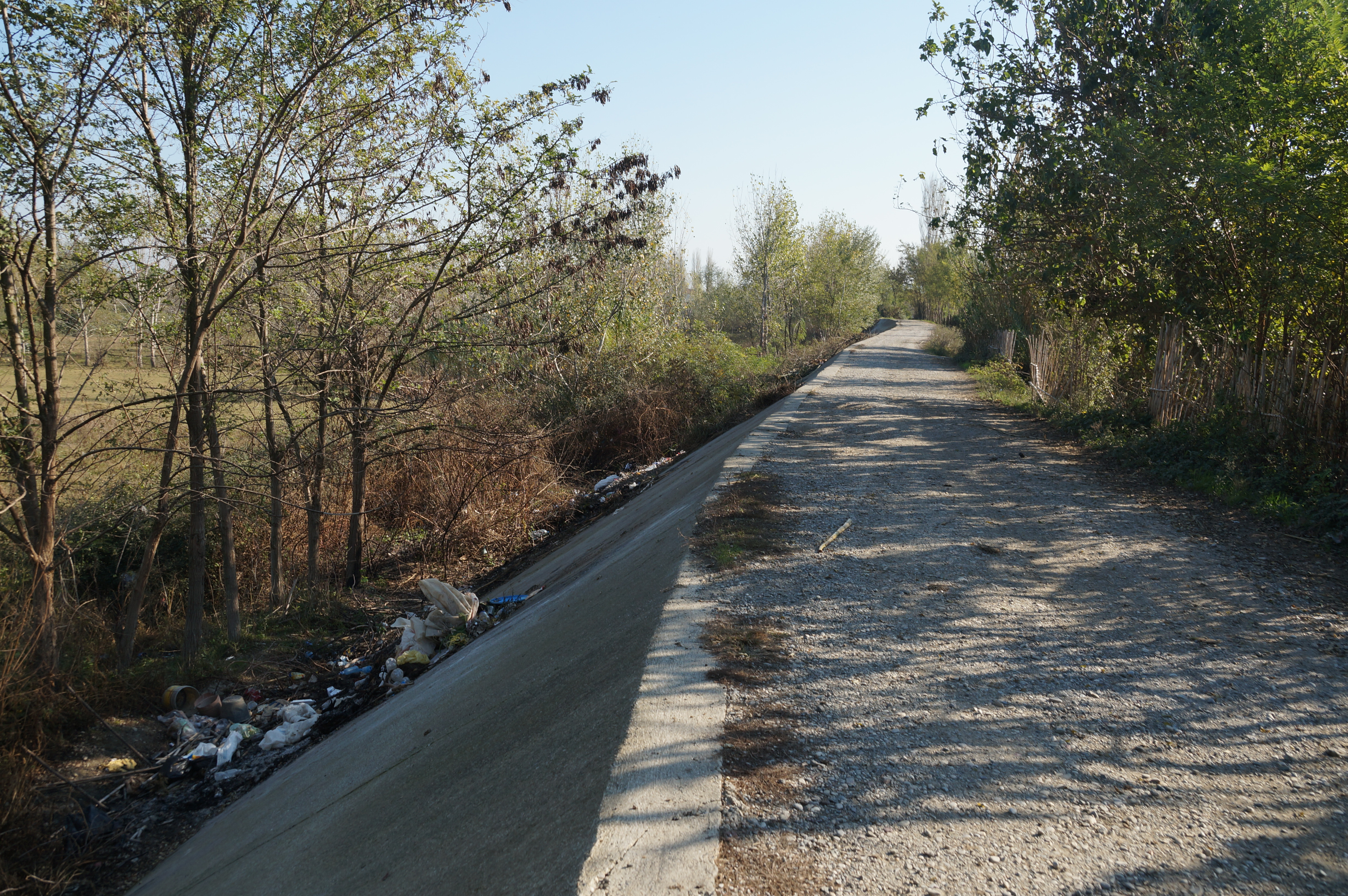 Flood dam at the banks of the river Buna close to Shirq village, Northern Albania